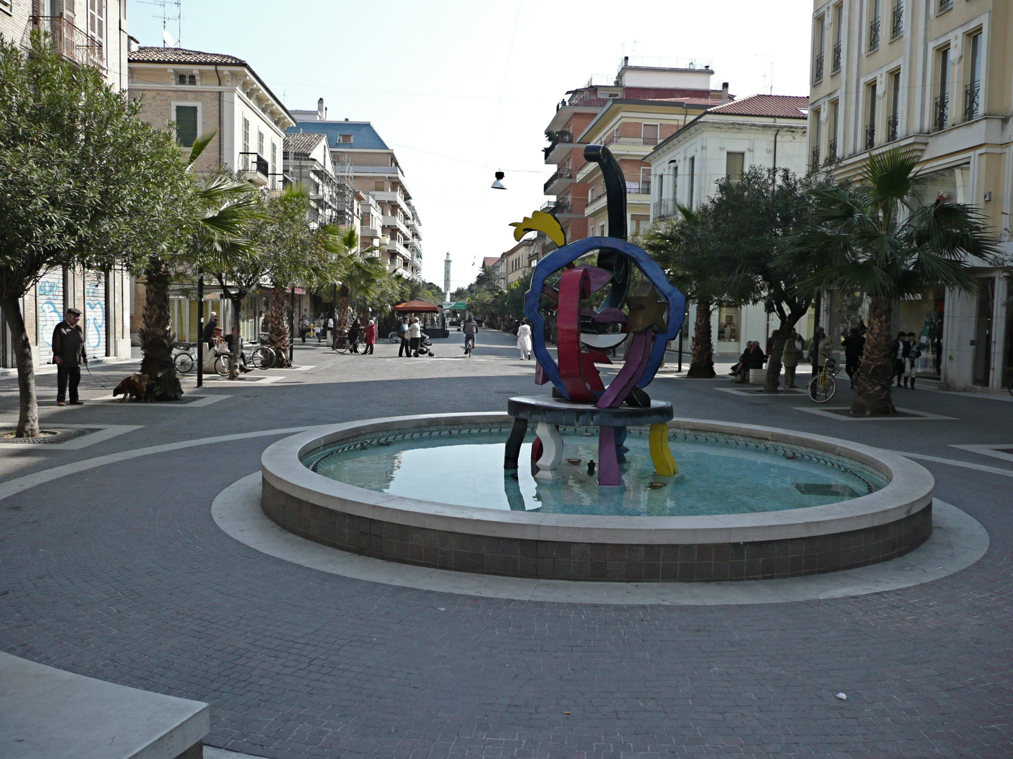 The Main Street of San Benedetto del Tronto